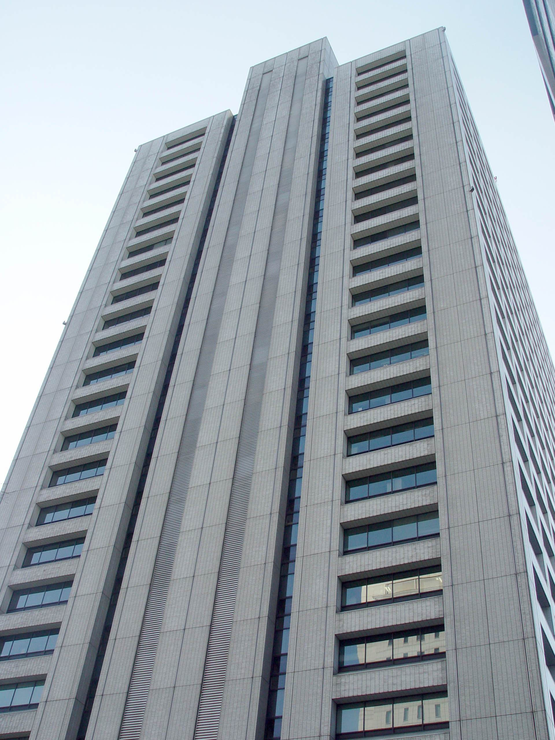 Public office building of Japan: The Ministry of Health, Labour and Welfare The Social Insurance Agency The Ministry of the Environment The Cabinet Office disaster prevention charge 庁舎： 厚生労働省 社会保険庁 環境省 内閣府防災担当